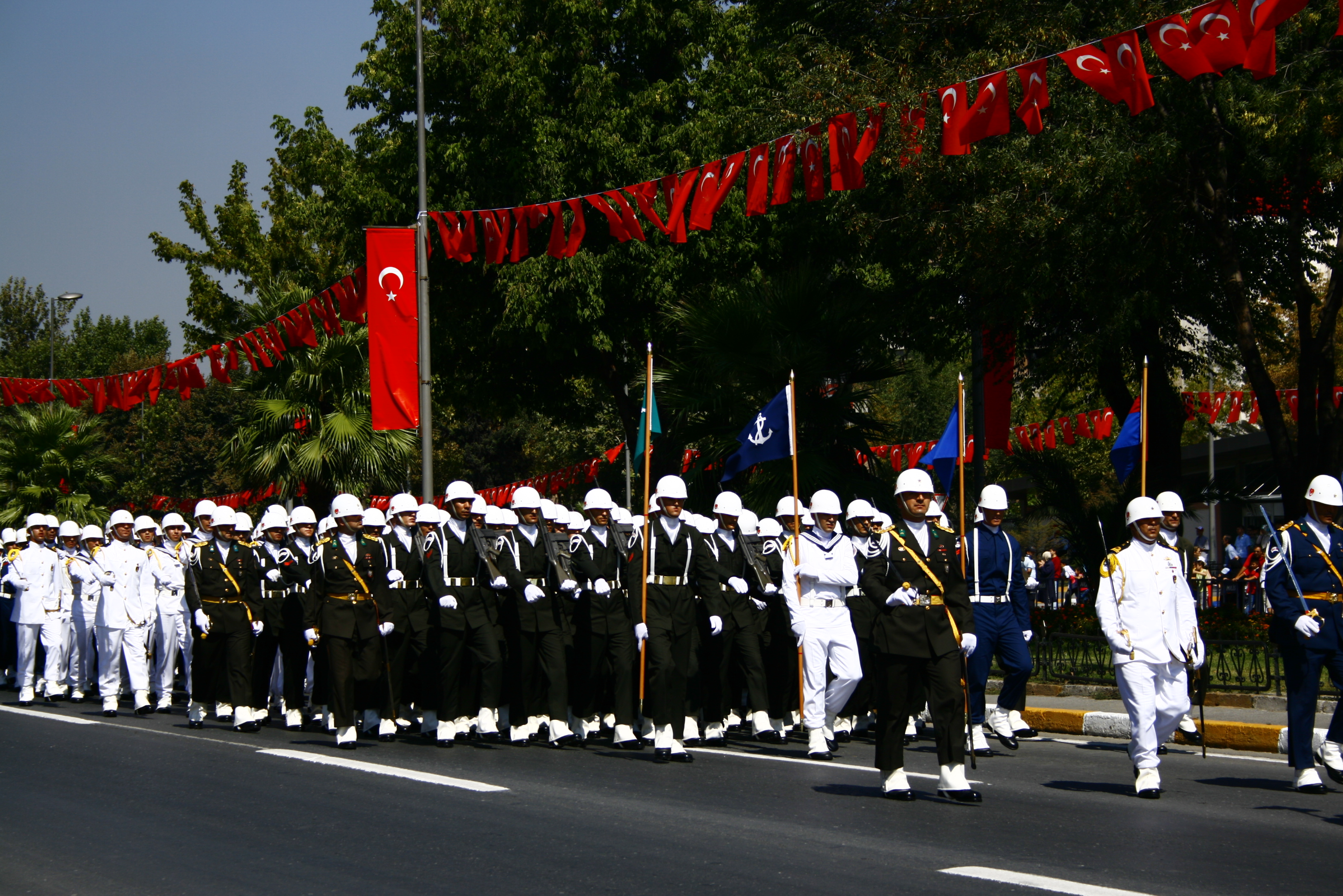 Parade zum Tag des Sieges 30. August 2007 / Parade on the Victory Day on August 30 in Turkey